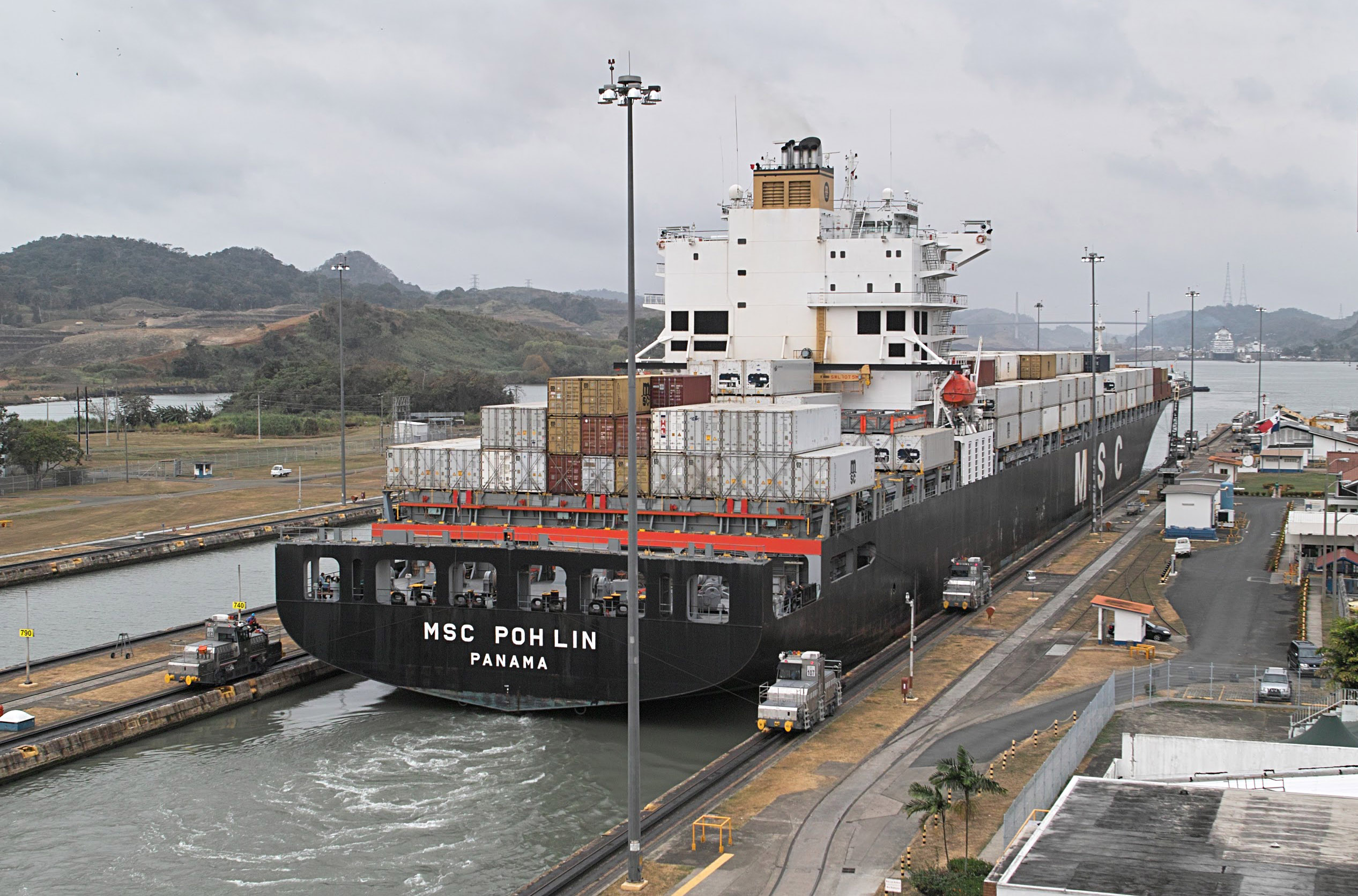 The panamax ship MSC Poh Lin exiting the Miraflores locks, March 2013